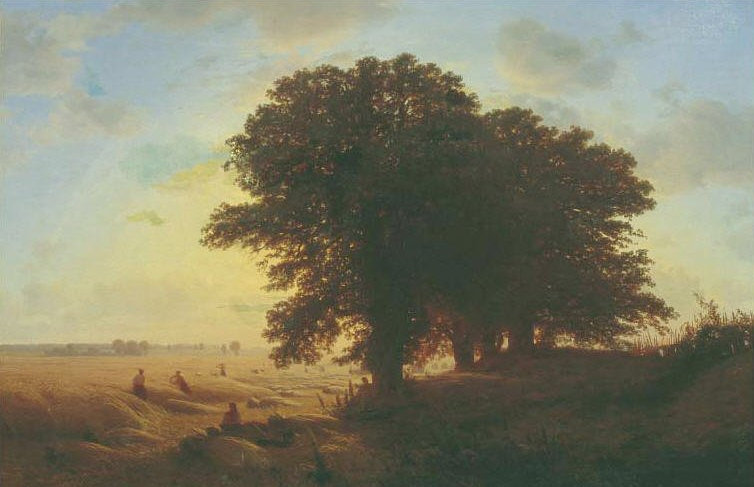 Mikhail Spiridonovich Erassi